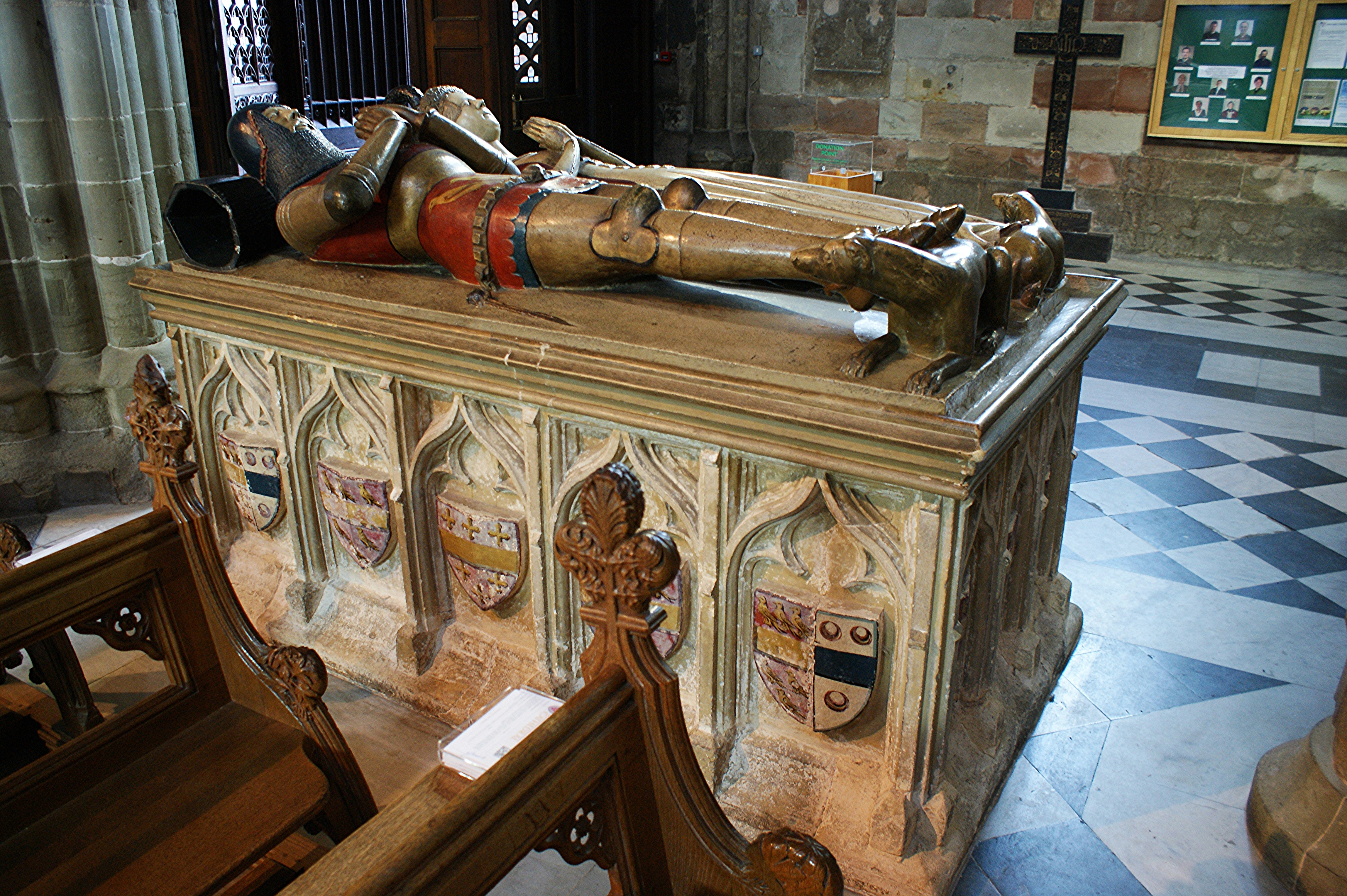 The late 14th Century Beauchamp Tomb at Worcester Cathedral. There has been much dispute about whether the effigies are of Sir John de Beauchamp, 1st Baron Beauchamp of Kidderminster (1339-1388) of Holt Castle in Worcestershire and his wife Joan FitzWith, or of Sir John Beauchamp of Powick and his wife Elizabeth. Sir John Beauchamp of Holt was the Seneschal of King Richard II, who knighted him and also made him a Baron. However, various lords wished to reduce the influence of the King's favourites and in 1388 the so-called 'Merciless Parliament attainted Beauchamp and others of the King's Household of high treason and executed them. Photograph taken 23 June 2014.